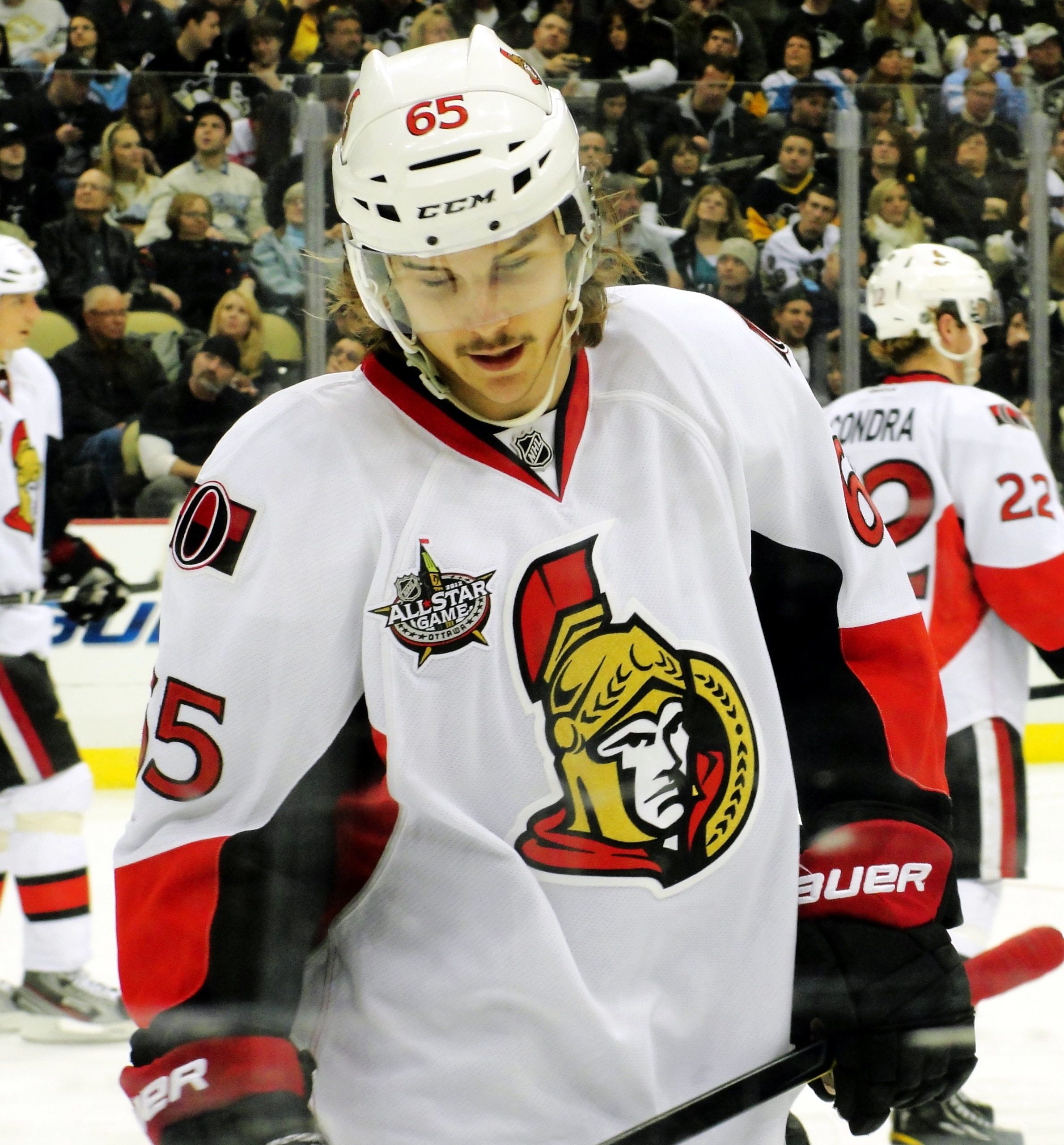 Erik Karlsson of the Ottawa Senators warms up before a November 25, 2011 game against the Pittsburgh Penguins at Consol Energy Center in Pittsburgh, PA.